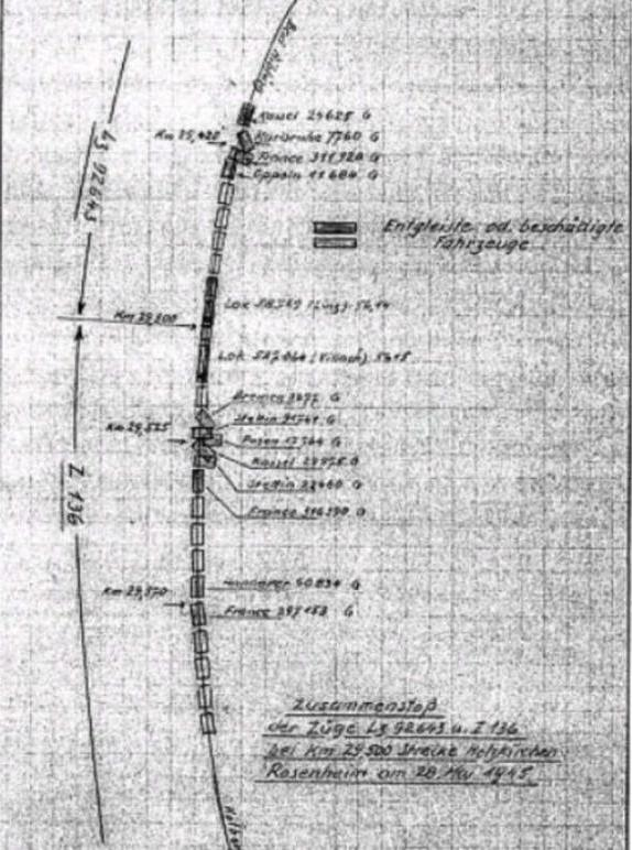 Sketch Bad Aibling rail accident 1945